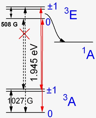 energy structure of N-V- center in diamond